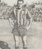 This is a photograph of Federico Vairo taken during his time with Rosario Central in Argentina. He played his last game for the club in 1954